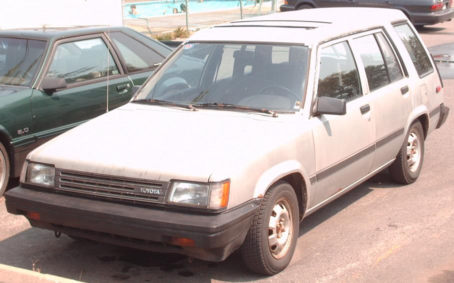 1987-1988 Toyota Tercel Wagon photographed in Montreal, Quebec, Canada.